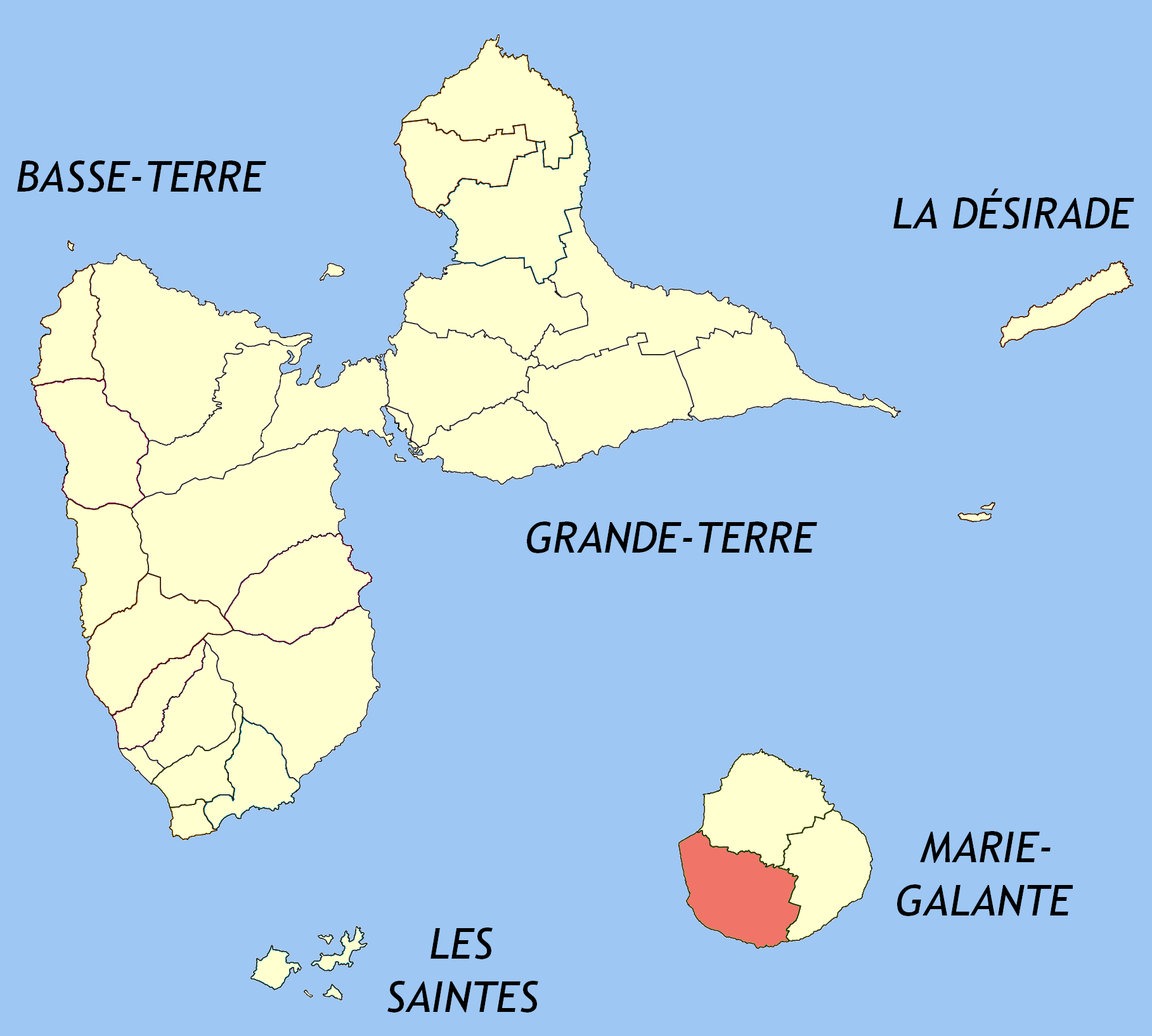 Created map myself.